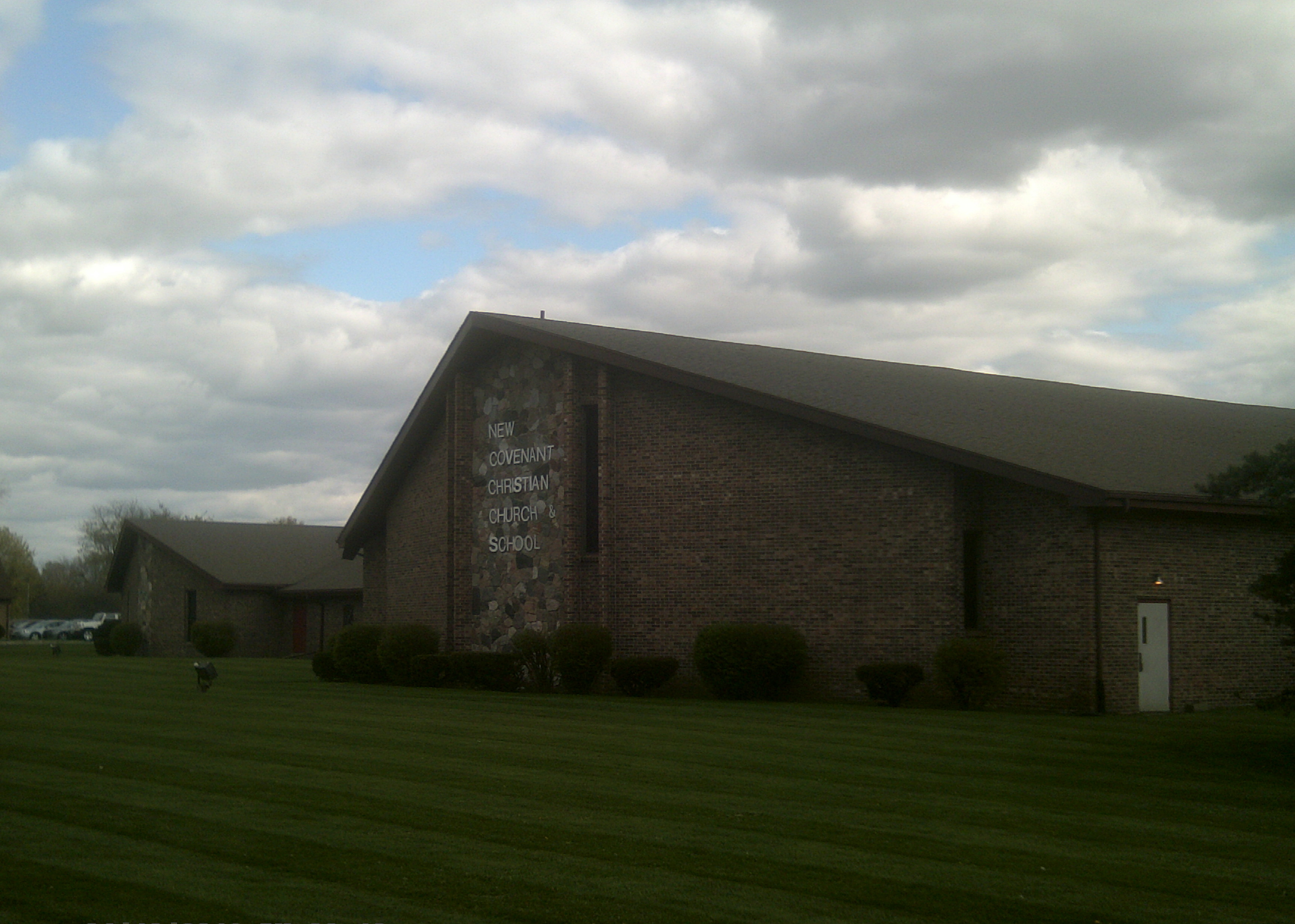 Picture of the building of New Covenant Christian School in Lansing MI